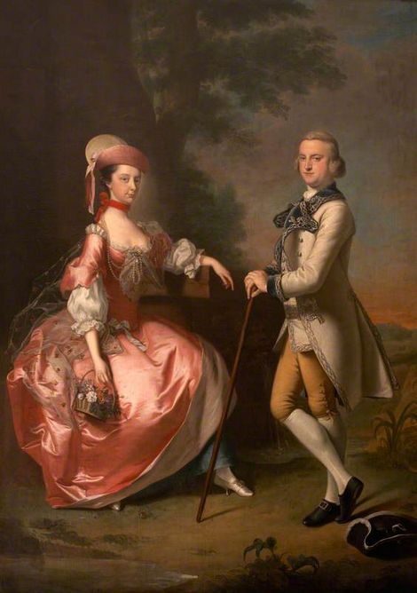 1755 painting of Sir John Pole, 5th Baronet, and his Wife, Elizabeth by Thomas Hudson.